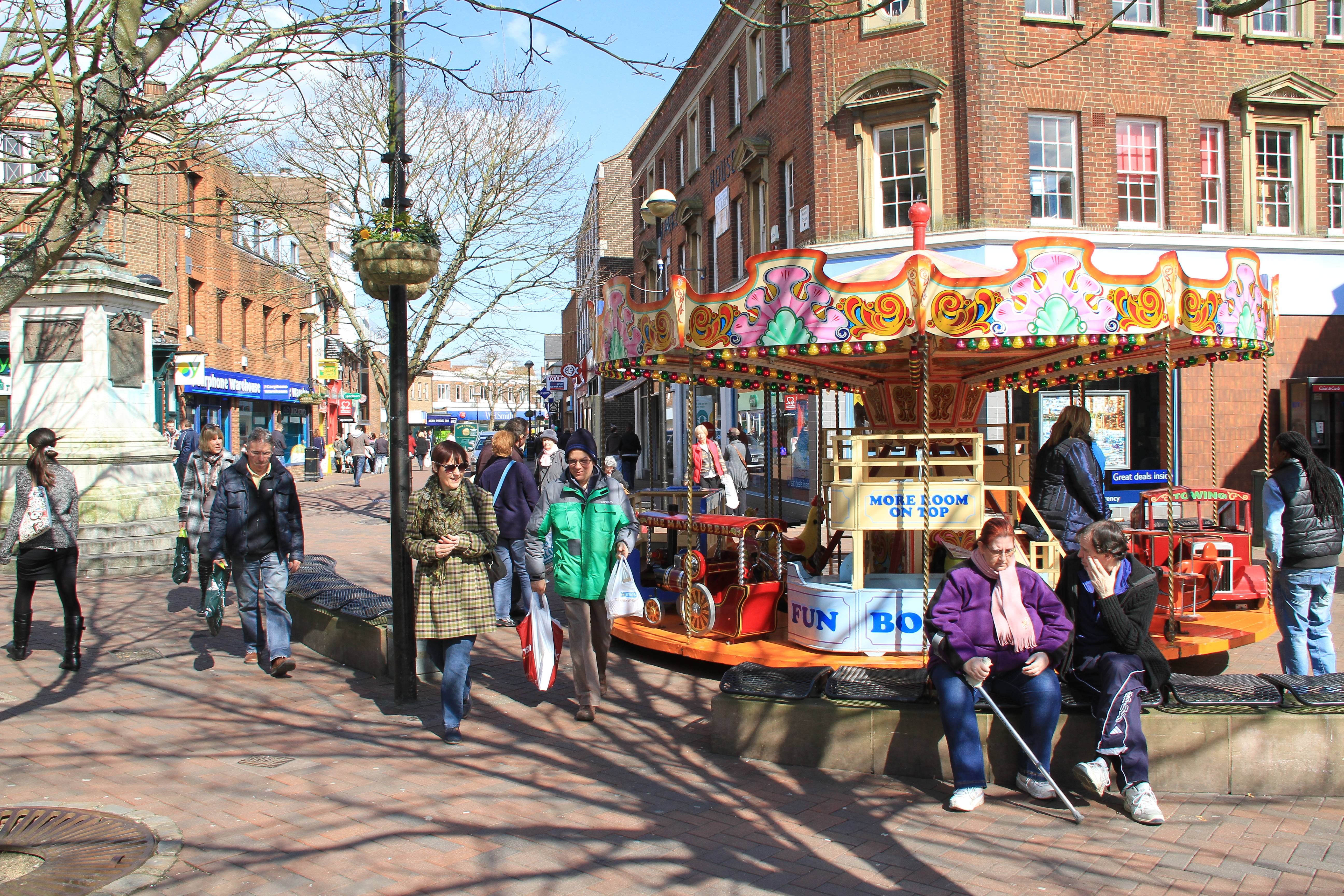 Junction of High Street and Market Sq